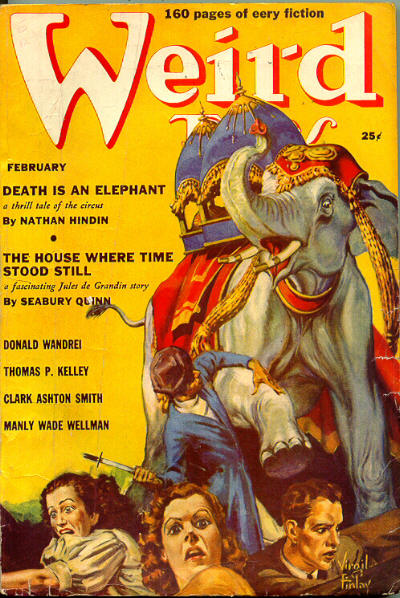 Cover of the pulp magazine Weird Tales (February 1939, vol. 33, no. 2) featuring Death Is an Elephant by Robert Bloch (as Nathan Hindin). Cover art by Virgil Finlay.